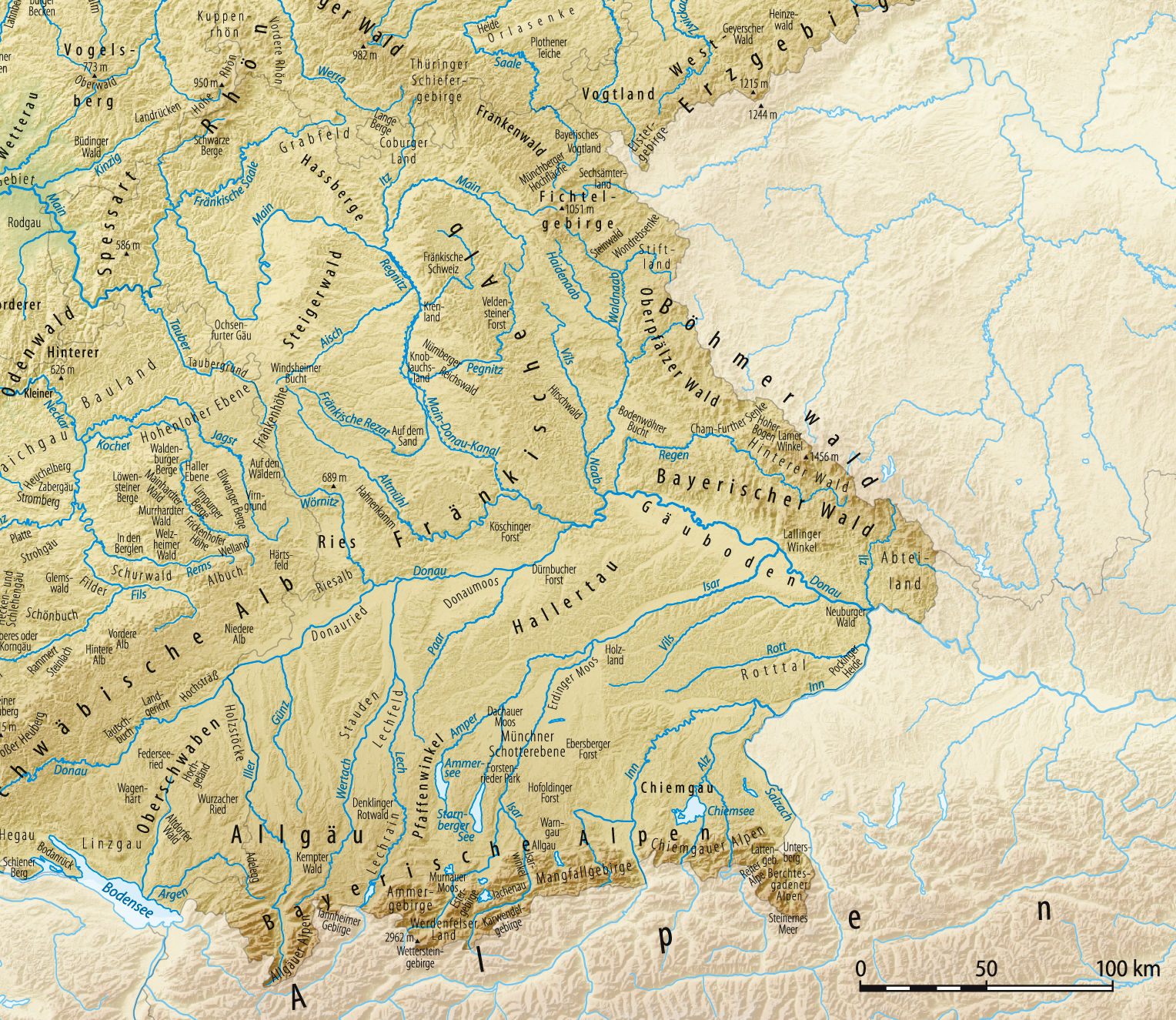 Landscapes of Bavaria